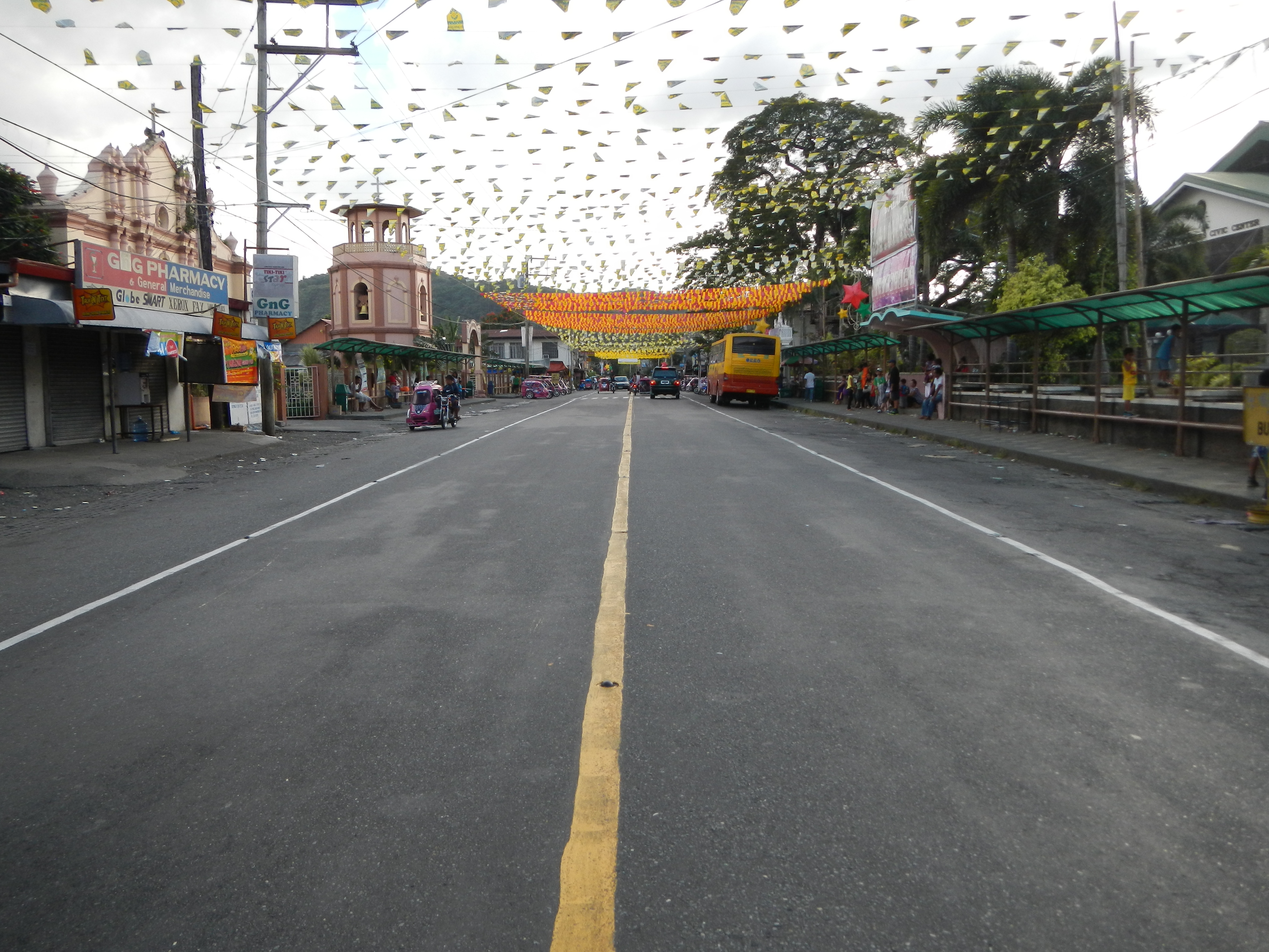 Upload Wizard photos of -- (general description of landmarks, town, church) - Saint Nicholas of Tolentino of Balaoan - Balaoan, La Union[1] - in front of the Giant Official Seal and Logo of the Town in front of the Balaoan Farmers Civic Center. of Balaoan beside the being constructed New Town Hall of Balaoan - of the Vicariate of St. Nicholas Vicar Forane: Father Arnulfo T. Tagorda Balaoan F-1587 2517 La Union, Philippines Titular: St. Nicholas of Tolentino, September 10 Parish Priest: Father Mario R. Valdez - the Church belongs to the Roman Catholic Diocese of San Fernando de La Union [2] - where the Bus Stop, Waiting Shed, Rang-Ay Bank branch is located - along the along the National Highway or Daang Maharlika or Pan-Philippine Highway - also the Public Market, Barangay Nalasin, and the Tree house in the Town Plaza of Balaoan.